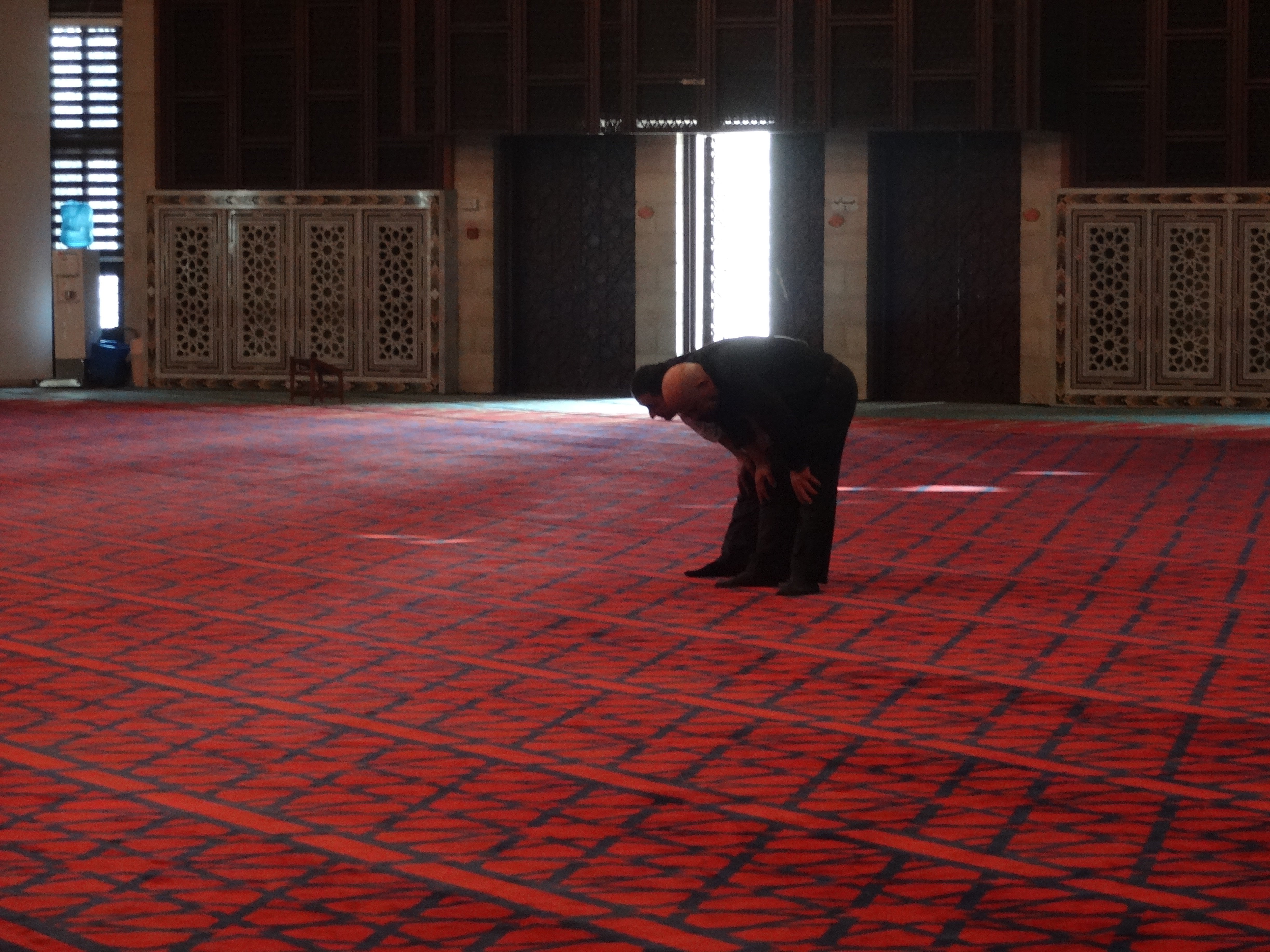 The King Abdullah I Mosque in Amman, Jordan was built between 1982 and 1989. It is capped by a magnificent blue mosaic dome beneath which 3,000 Muslims may offer prayer